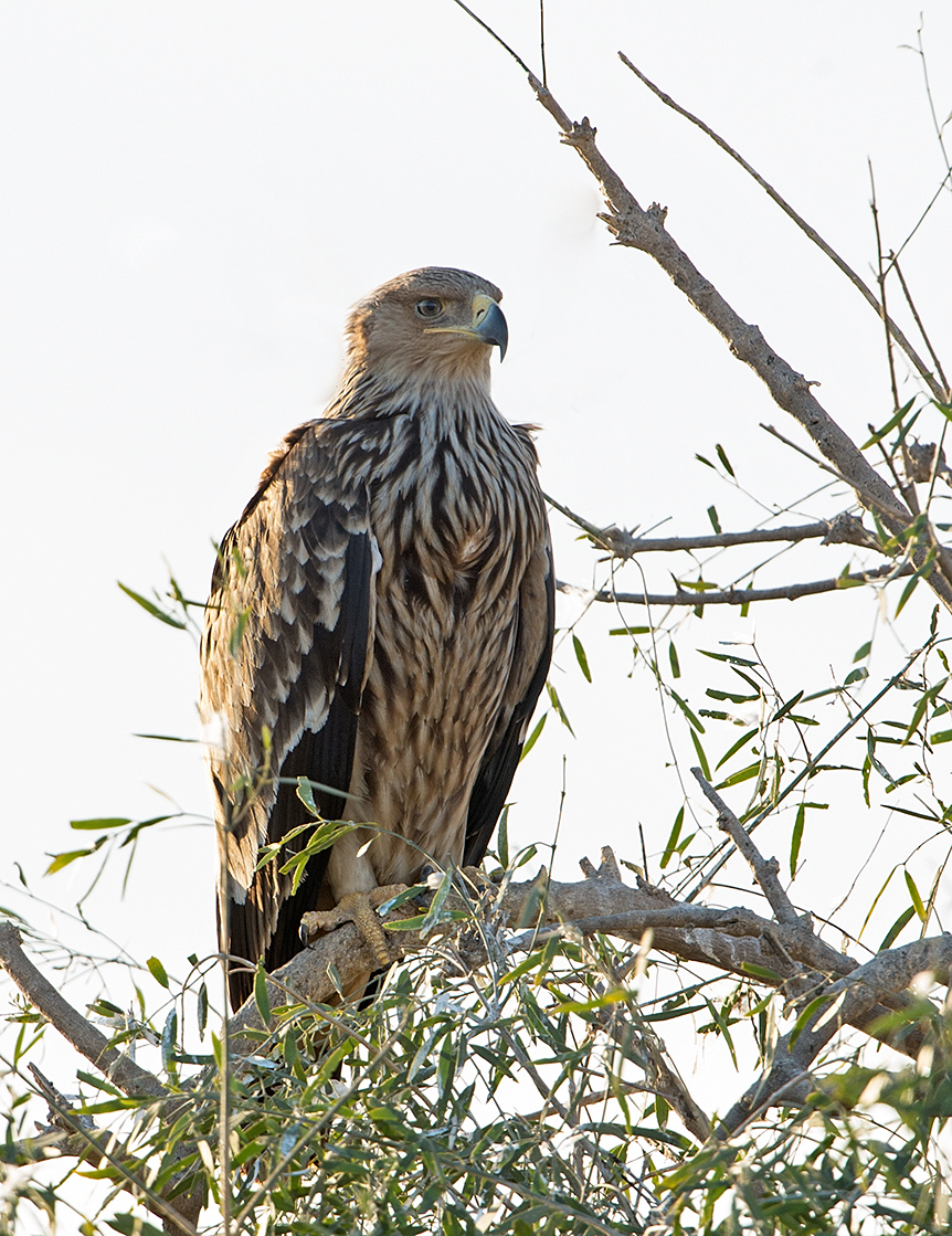 Juvenile/ Subadult specimen. Winter visitor to North West India. Seen at Jor Beer, Bikaner